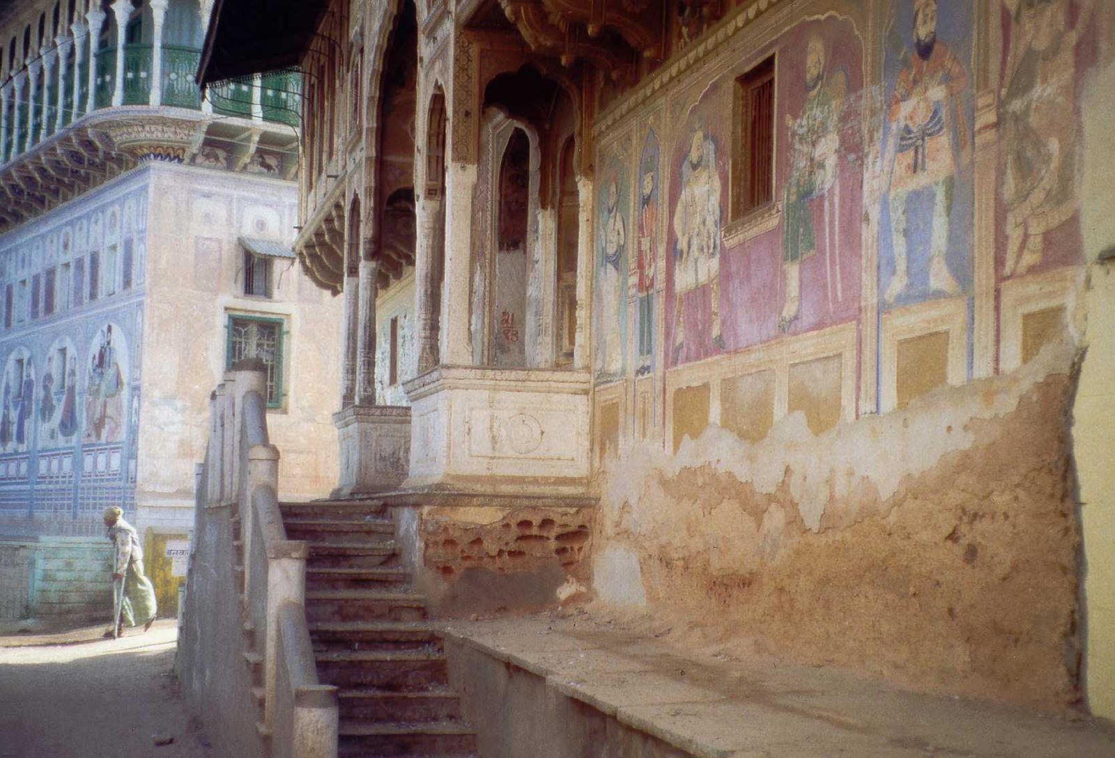 Original caption: The region of Shekhawati in Rajasthan (India) is famous for its painted houses in a number of towns there. Here, just before modern times arrived, in the 19th and even early 20th century, non-aristrocrats (wealthy and less wealthy trading families) finally let it all hang out and let their houses get painted inside out. This photo is taken in Nawalgarh where we also saw one such painting painted over with a Cola advertisement.Shekhawati painted houses (India)